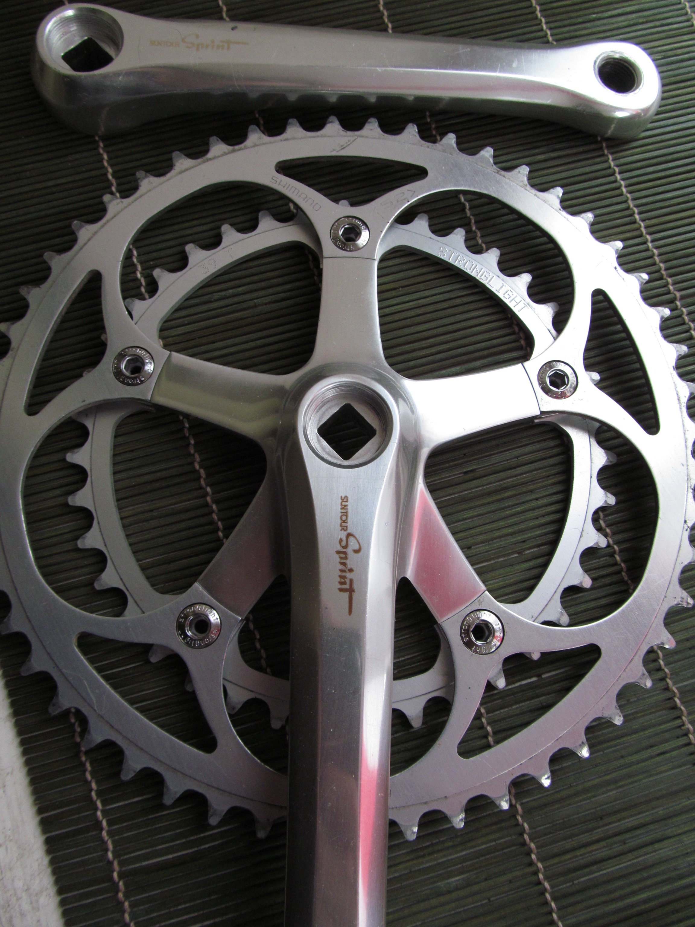 A road bicycle crankset manufactured by Suntour, branded as part of the Sprint gruppo. The photographer tags the original image as 1986.